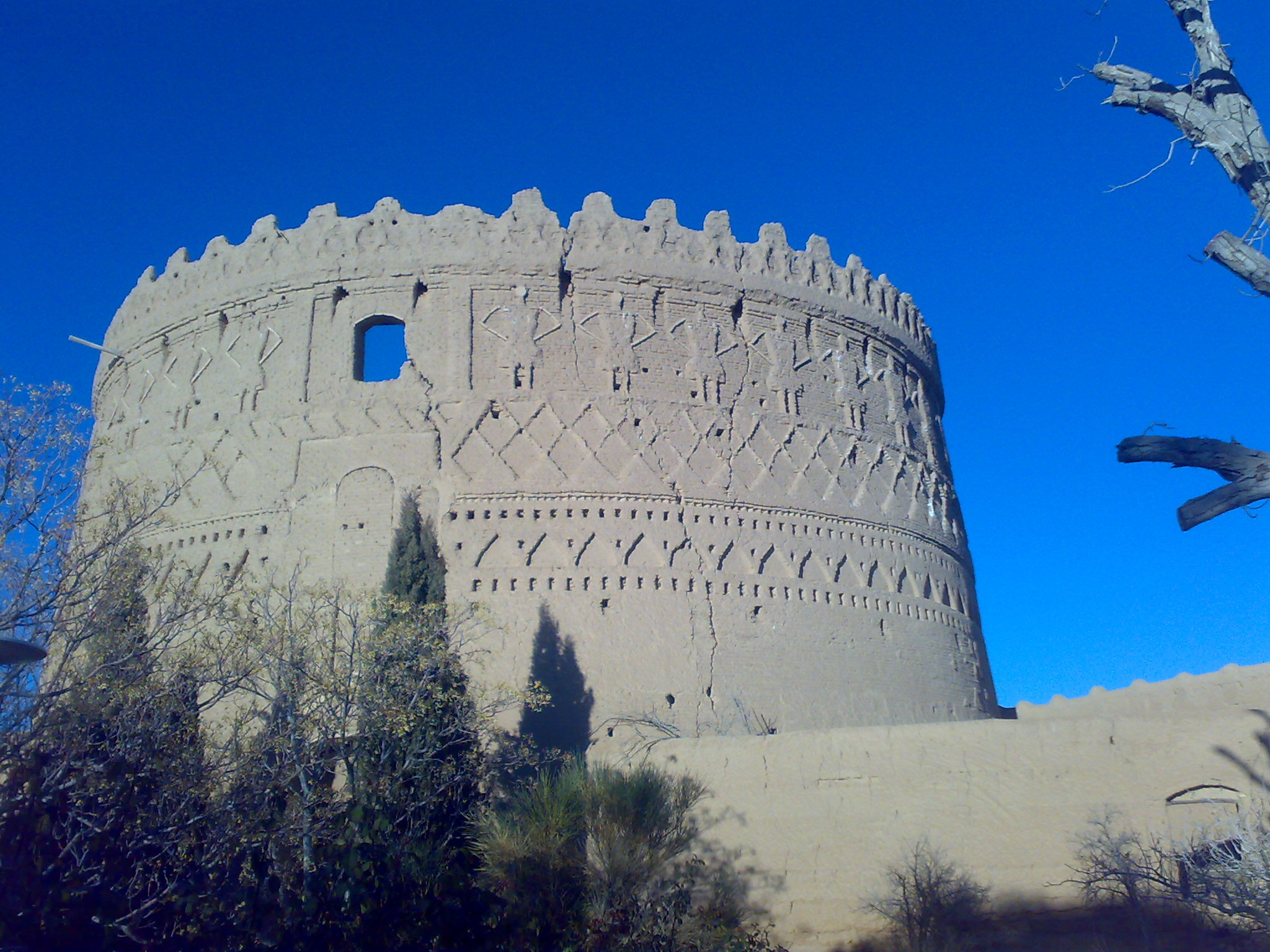 برج و قلعه حسين آباد شقيع پور